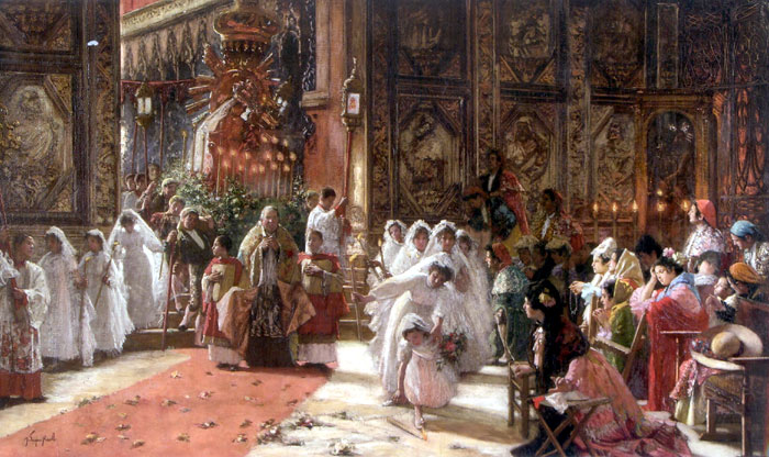 Primera comunión, óleo sobre lienzo del pintor Joaquín Luque Rosello (1865-1932)